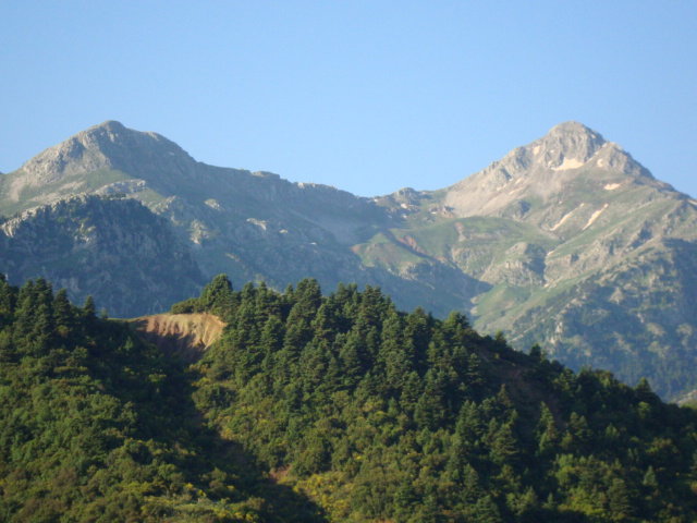 This is a photography of Natura 2000 protected area with ID GR2320008